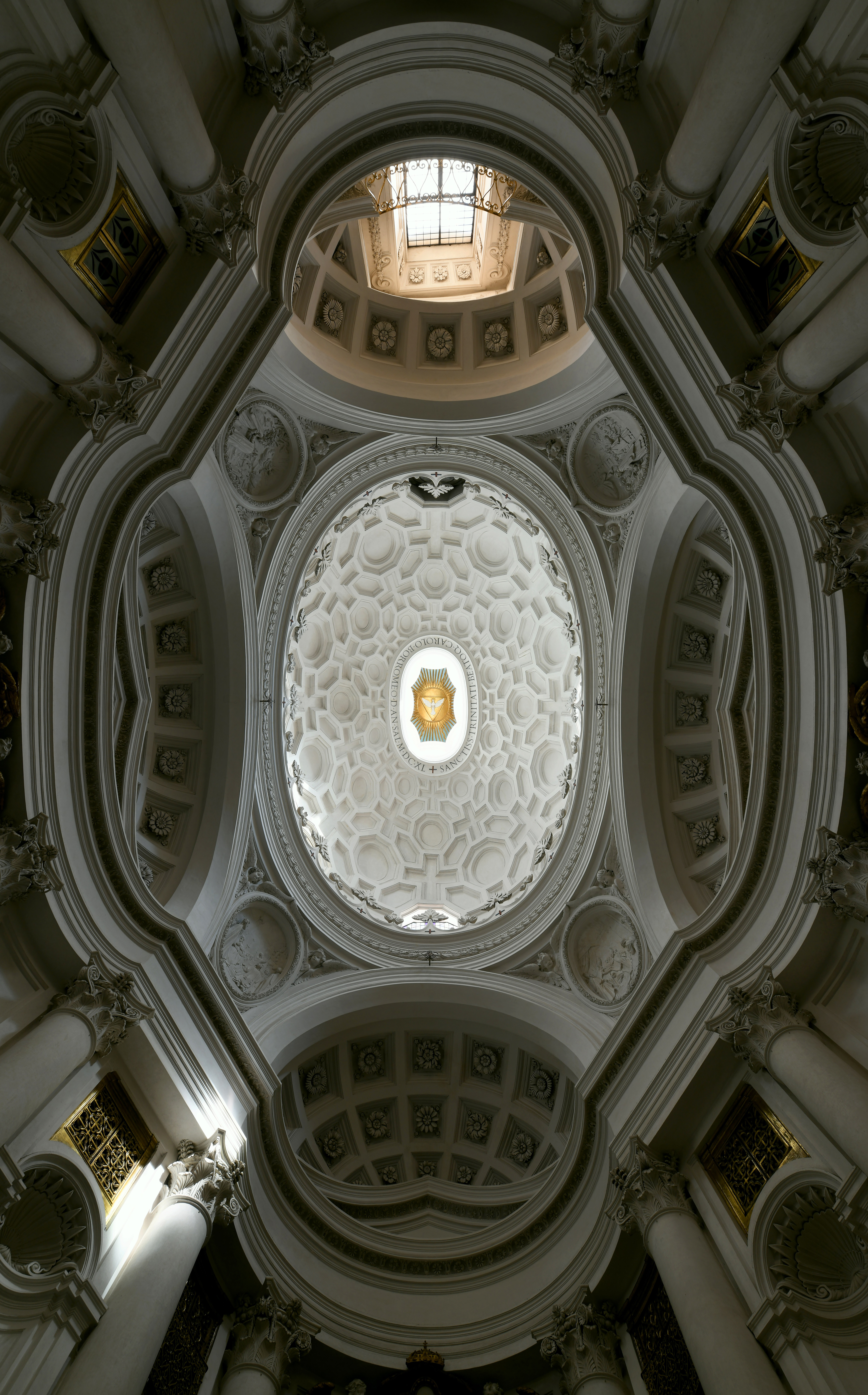 San Carlo alle Quattro Fontane (Rome) - Dome